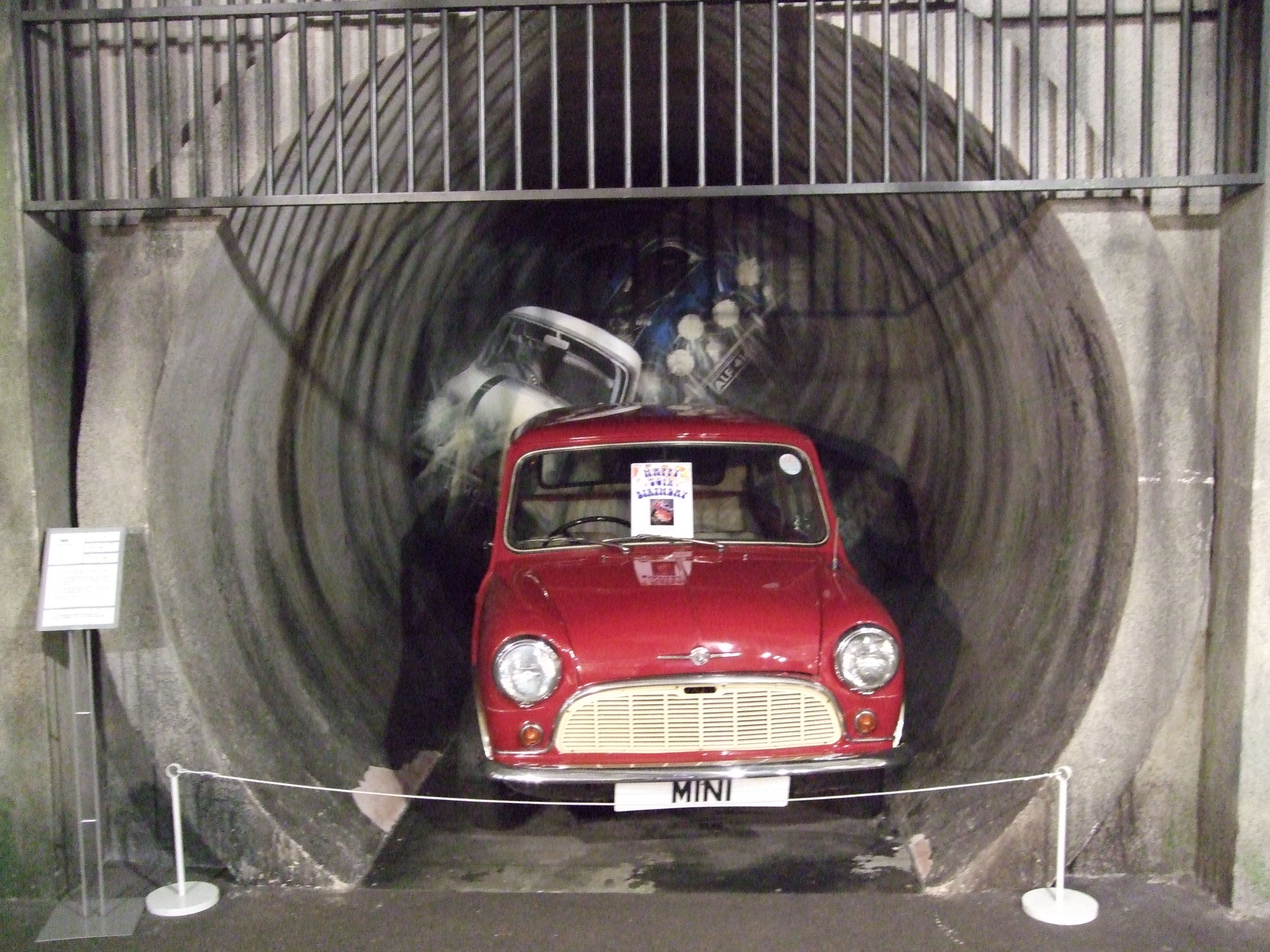 A Mini emerging from a tunnel, representing one of the most famous chase scenes from the iconic movie 'The Italian Job', filmed in Coventry's sewers as the sewers in Milan were too small. "Not alot of people know that." M.Caine.